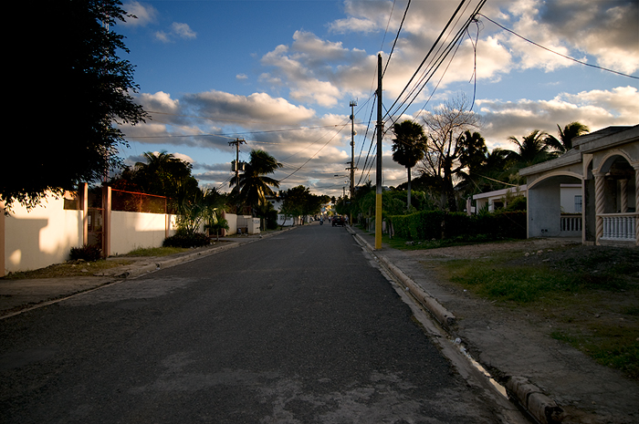 Amin Torres,enCabrera